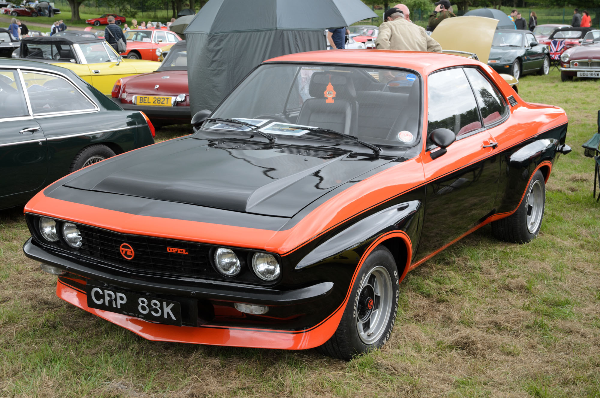 Trentham Gardens Classic Car Show 21/06/2015